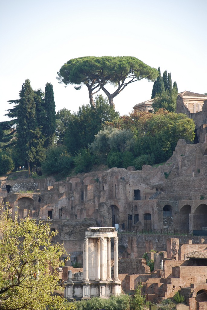 According to Dionysius of Halicarnassus, the Romans believed that the Sacred fire of Vesta was closely tied to the fortunes of the city and viewed its extinction as a portent of disaster.